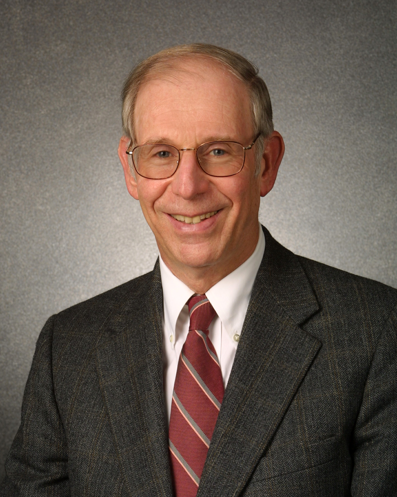 Portrait of Dr. Daniel M Albert.